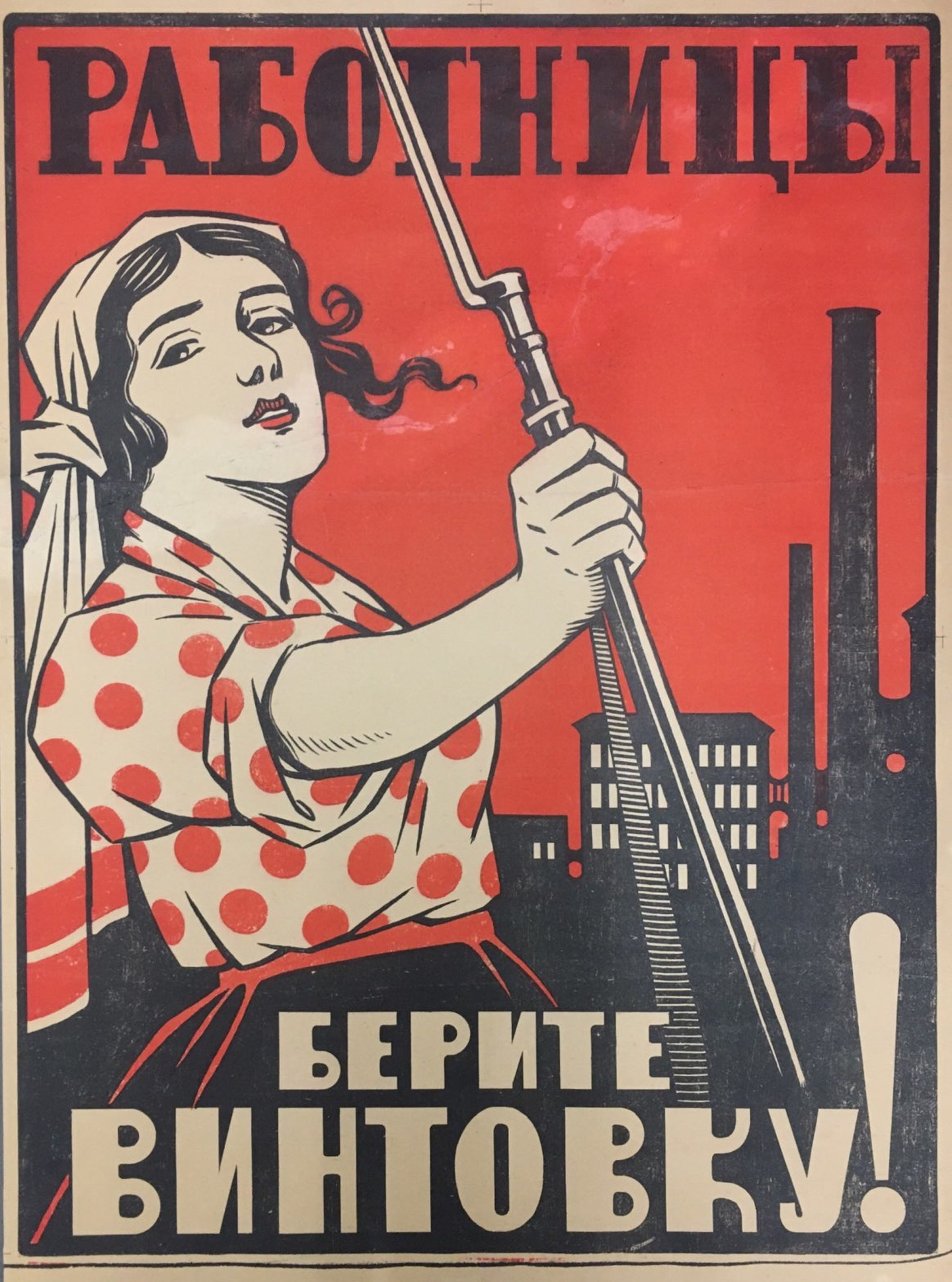 Soviet Poster